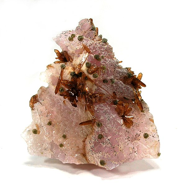 Eosphorite, Quartz, Zanazziite Locality: Lavra Da llha, Minas Gerais, Brazil Size: small cabinet, 6.1 x 5.9 x 1.1 cm Eosphorite and Zanazziite on Rose Quartz A very attractive combination specimen with sharp and gemmy eosphorite crystals to 1 cm in size. The small green spheres are zanazziite. Ex. Martin Zinn Collection.